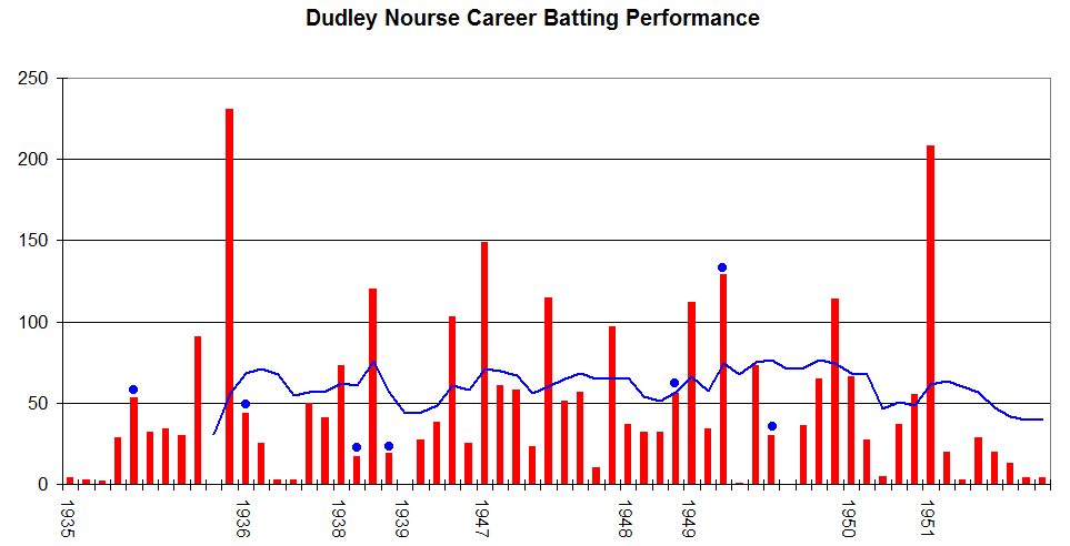 This graph details the Test Match performance of Dudley Nourse. It was created by Raven4x4x. The red bars indicate the player's test match innings, while the blue line shows the average of the ten most recent innings at that point. Note that this average cannot be calculated for the first nine innings. The blue dots indicate innings in which Nourse finished not-out. This graph was generated with Microsoft Excel 2002, using data from Cricinfo and .au.